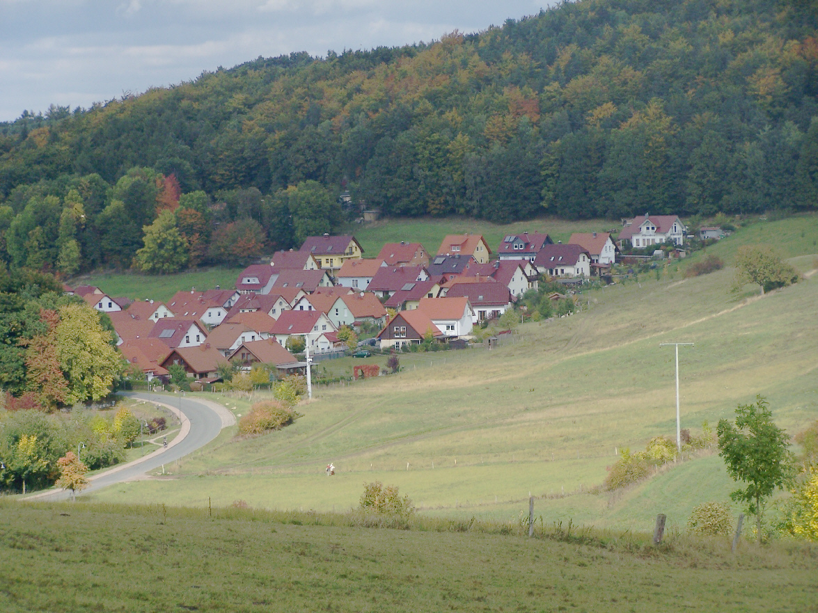 The new settlement in the eastern part of the village.